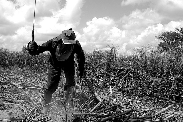 harvesting sugar cane in Motril